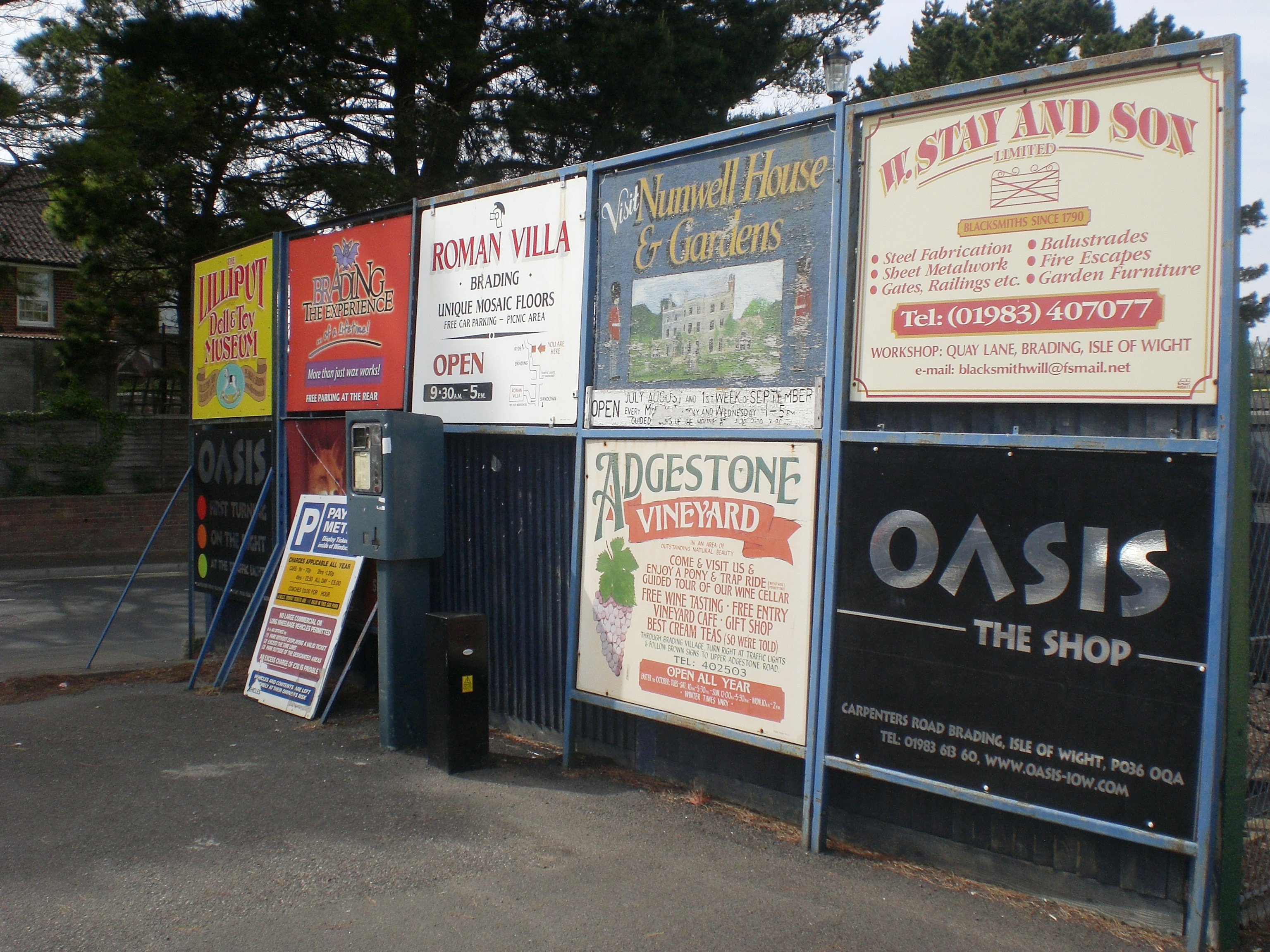 Advertising for local attractions in Brading Town Trust Car Park on the Isle of Wight.